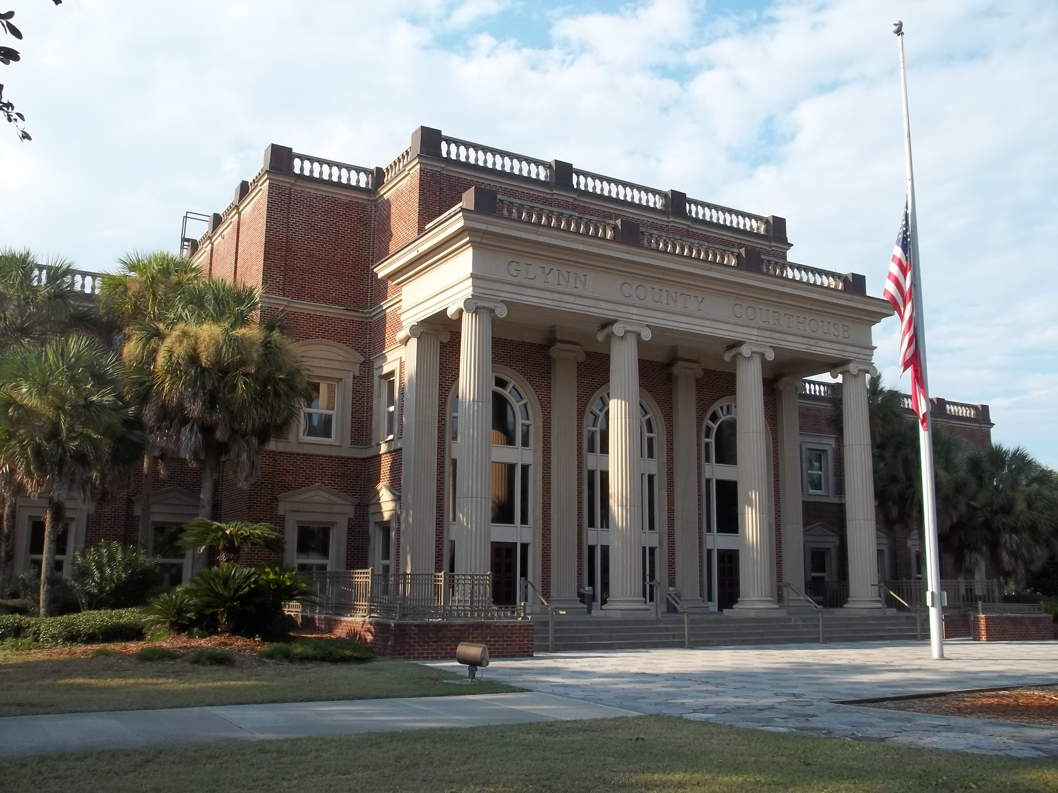 Brunswick, Georgia: Brunswick Old Town Historic District: New courthouse, built in 1991.